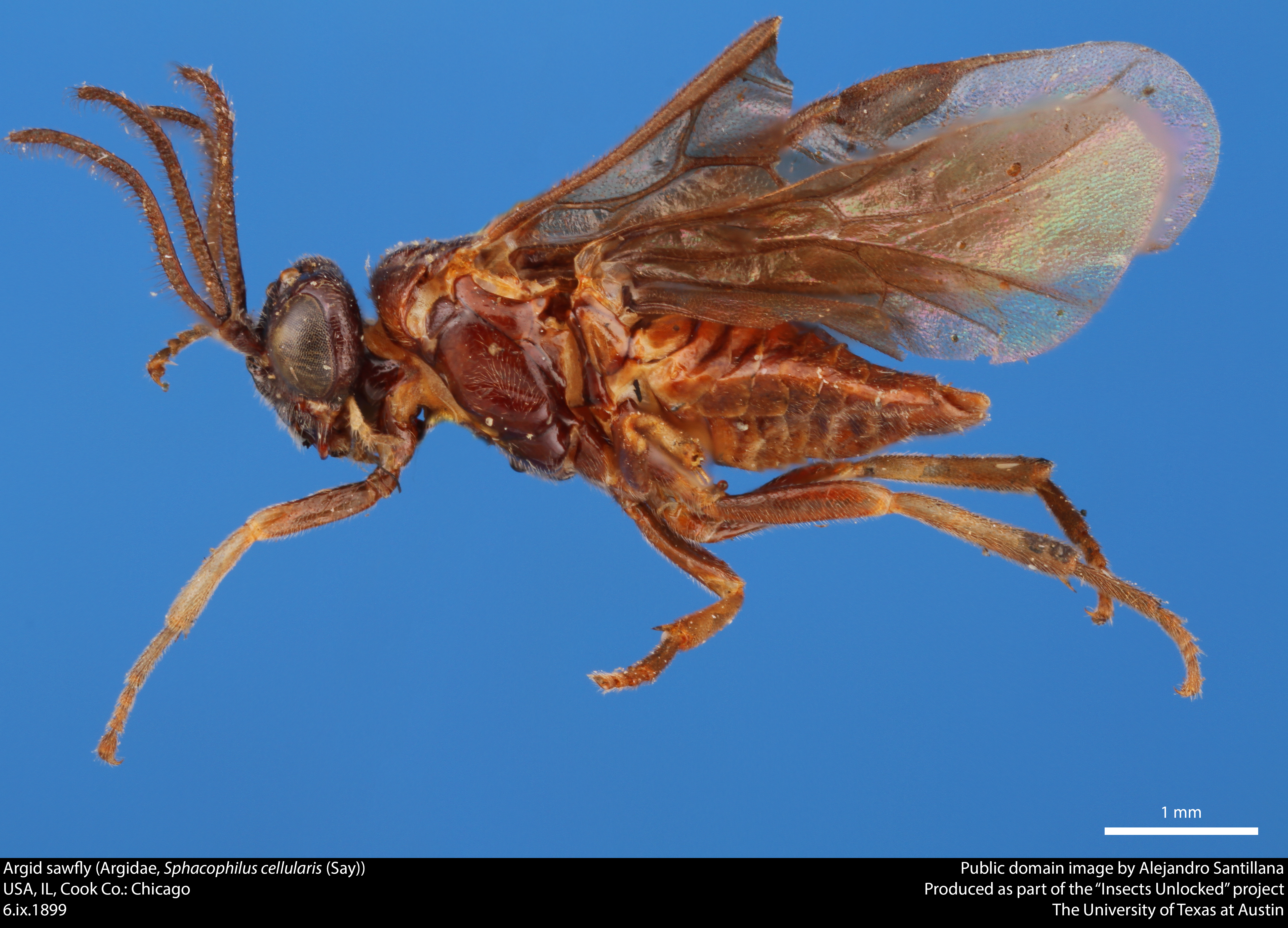 Argid sawfly (Argidae, Sphacophilus cellularis (Say)) USA, IL, Cook Co.: Chicago 6.ix.1899 This image was created as part of the Insects Unlocked project at the University of Texas at Austin. Based in the UT insect collection at Brackenridge Field Laboratory, part of the Department of Integrative Biology. Do not crop: This image is used on one or more sister projects, where its entire contents are wanted. If you crop it, please save the new image separately, and do not overwrite this